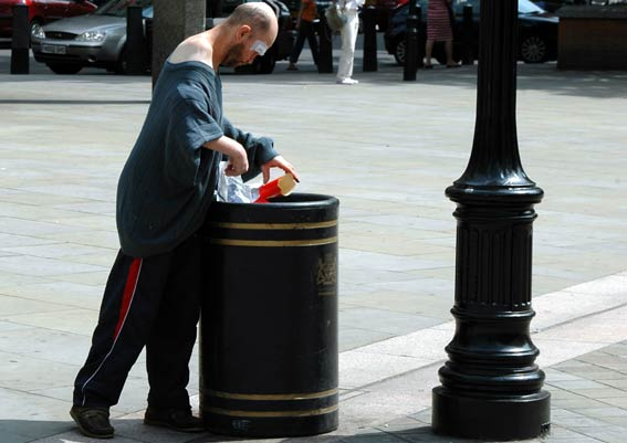 A man finding stuff to eat in a bin in London.